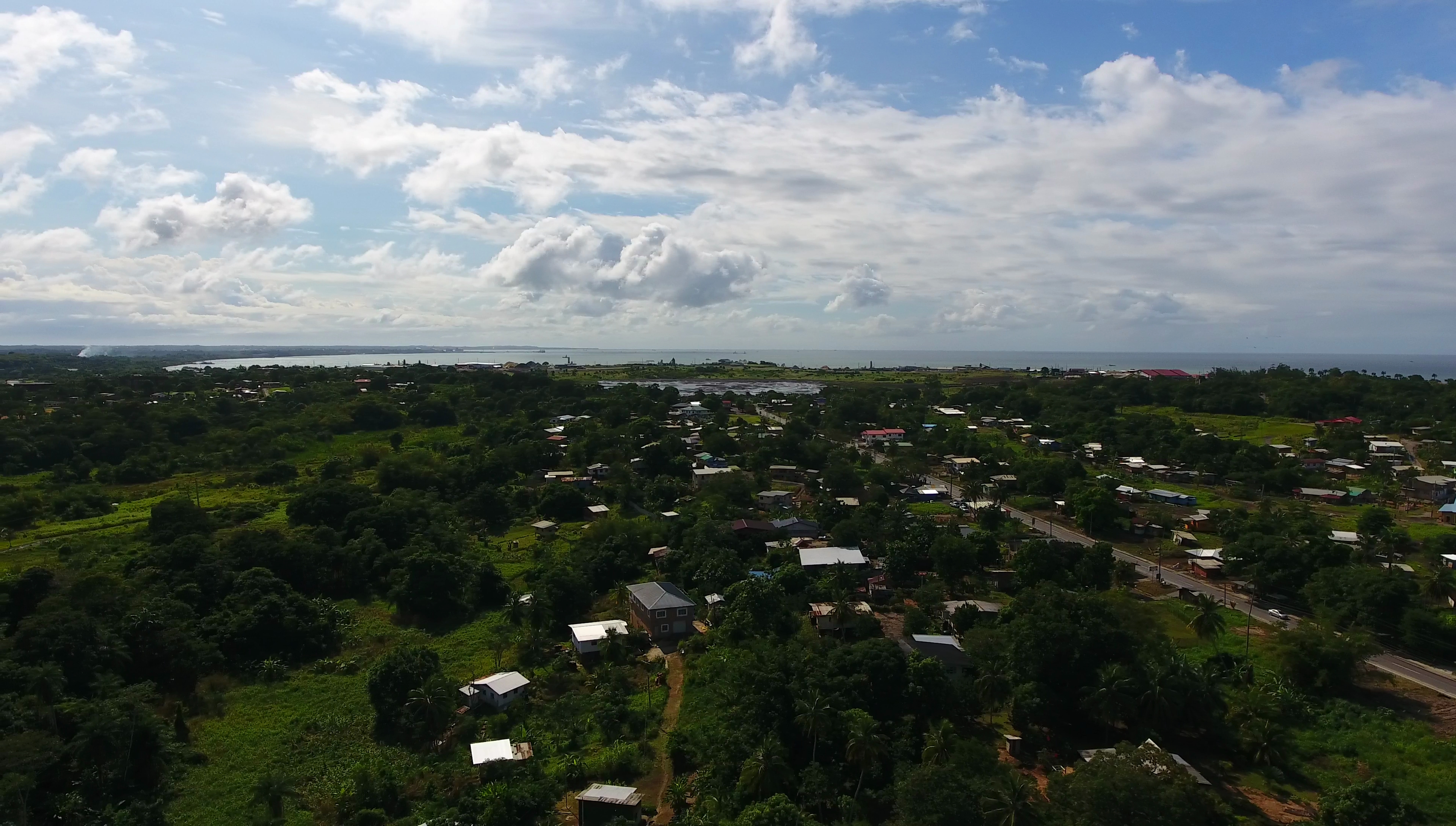 La Brea, Siparia, Trinidad and Tobago. Background: Pitch lake. Very background: Gulf of Paria. Road: Southern Main Road. Photo taken as part of the Southern Trinidad Aerial Photo Project, a small project sponsored by WMDE. Drone used: DJI Phantom 4. Snapshot taken from video footage via VLC.